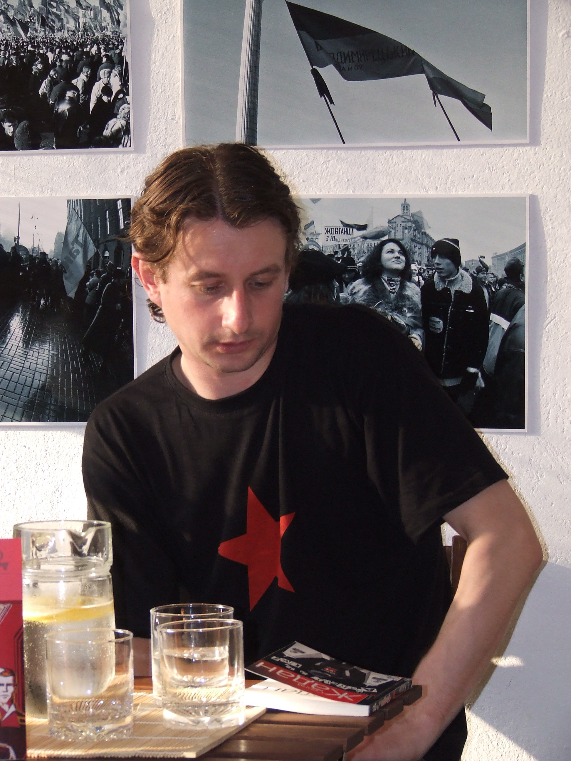 Serhiy Zhadan presents his book in Poznań.